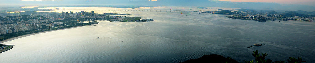 A Panorama taken from Sugarloaf Mountain with a view over the Guanabara Bay. On the left: Rio de Janeiro, on the right: Niterói and in the middle: Santos Dumont Airport. On the background: Rio-Niterói Bridge.